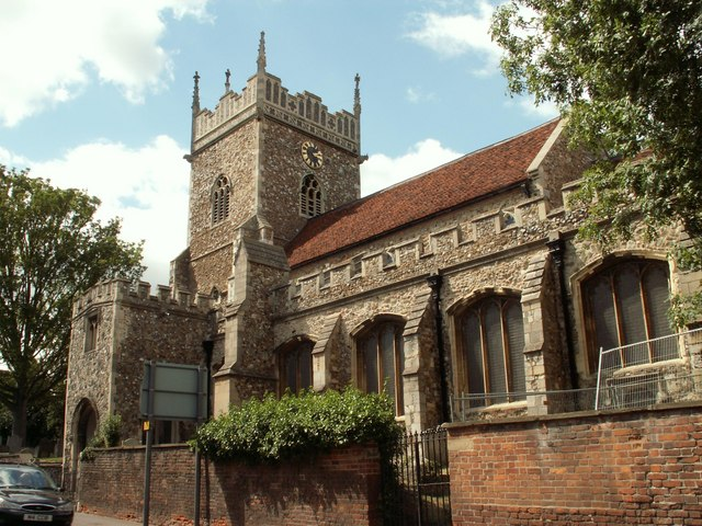 St. Leonard's church, Hythe, Essex, now part of Colchester. It still has a few interesting old buildings, including this 14th century church.